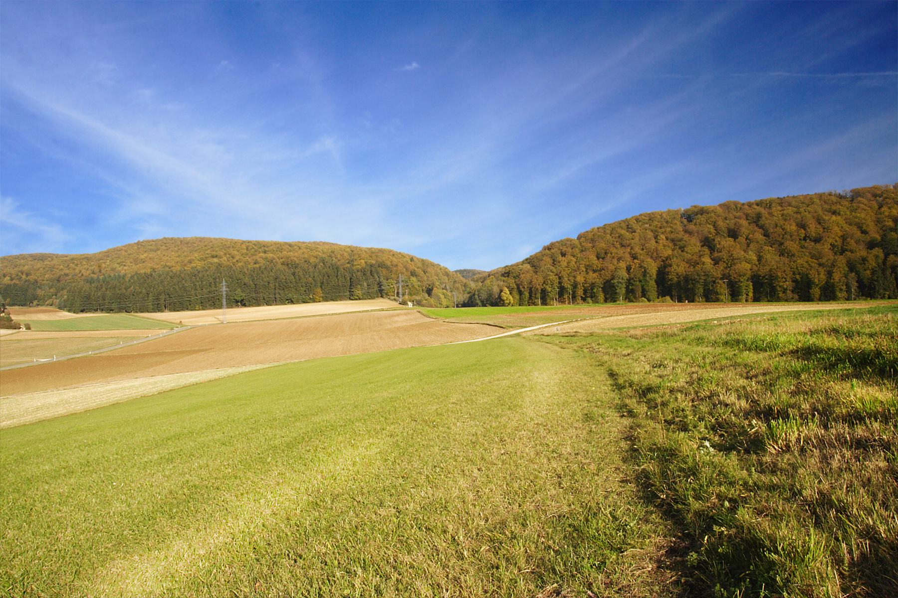 Lauchert-Graben, Swabian Alb. River Lauchert flows within the graben. The terrain of the graben is depressed on a distance of ca. 11km. Only the first eastern dislocation is morphologically very significant. In this image the dip-slip is ca.100m. Remains of gravel of a miocene upper Danube and cemented conglomerates ("Juranagelfluh") of a miocene "Urlauchert" are also displaced by ca. 50m.